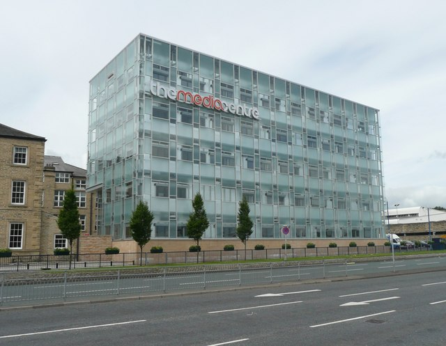 The new Media Centre office block, off Northumberland Street, Huddersfield The Huddersfield Media Centre was established in 1995, and provides serviced office accommodation for creative and media businesses.